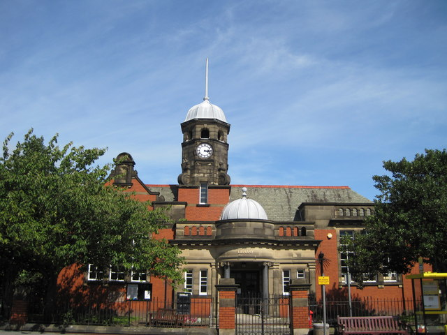 Carnegie Library, College Road, Crosby, Merseyside, seen from west-southwest